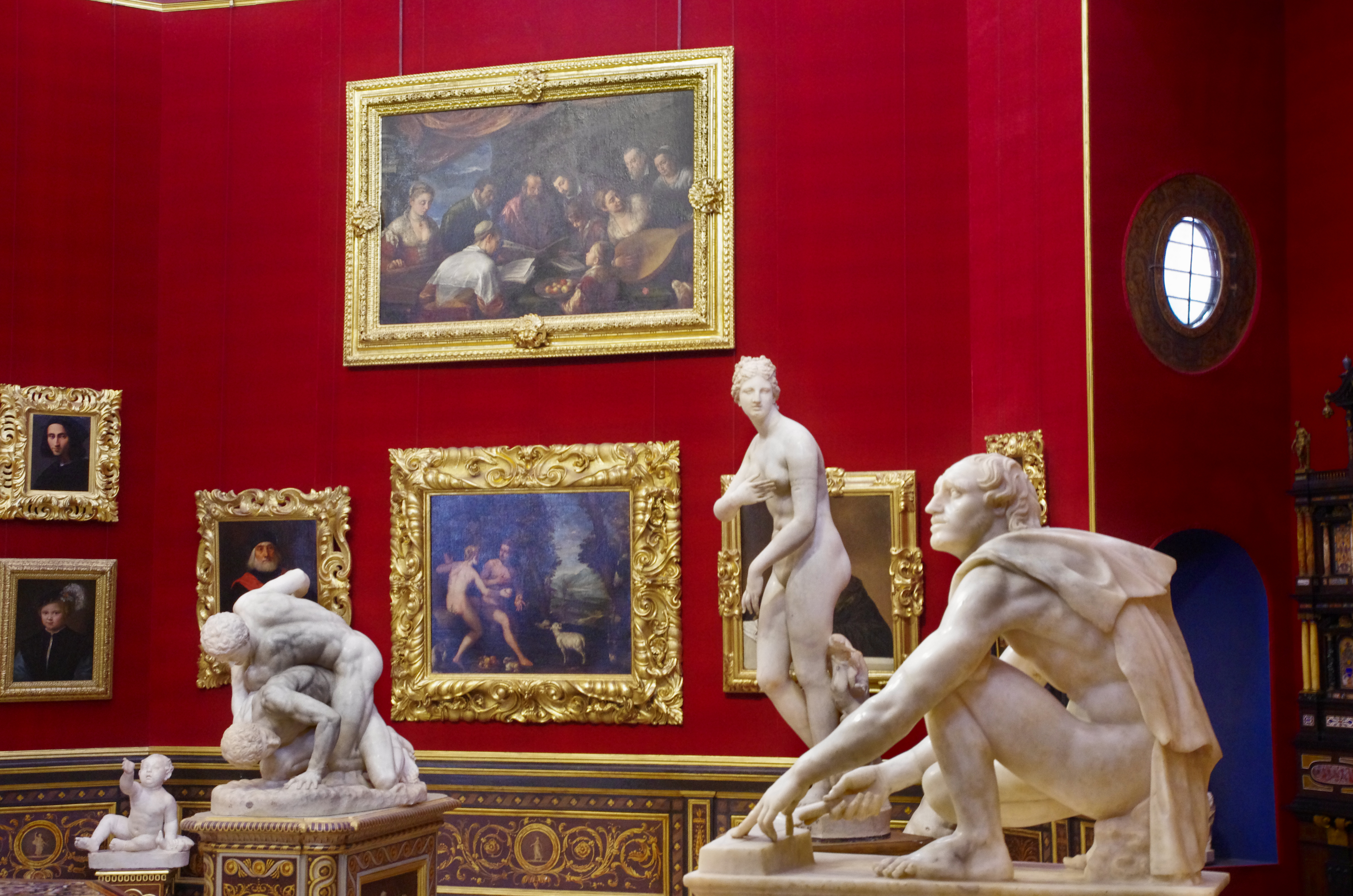 03 2015 The Tribune-Wrestlers -Arrotino-Apollino-Venus de Medici by Greek Cleomenes of Apollodorus-Uffizi Gallery (Florence) Photo Paolo Villa